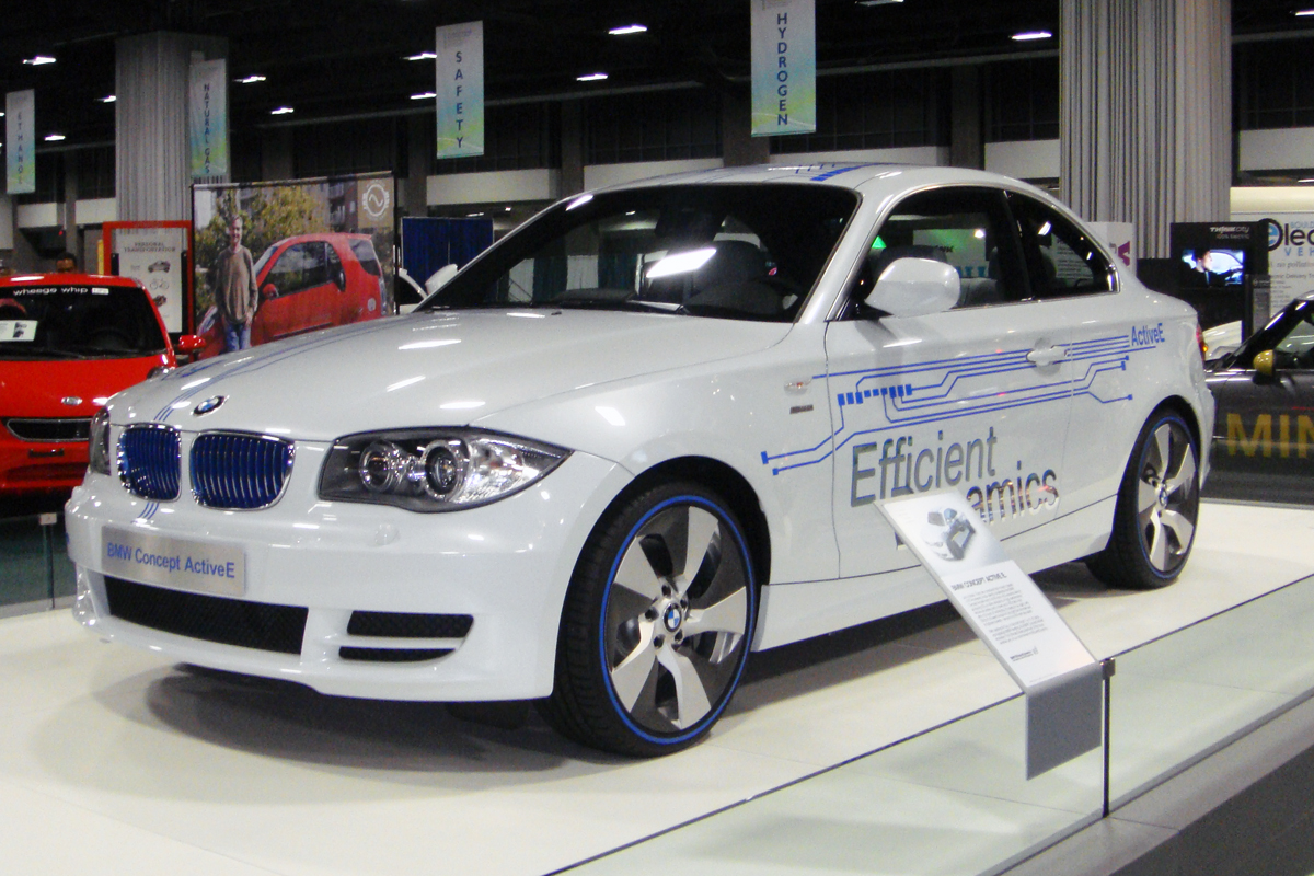 BMW Concept ActiveE (Electric vehicle) at the 2010 Washington Auto Show